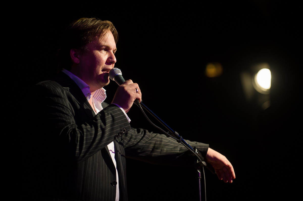 Stand-Up Comedian Matthias Brodowy during a performance in Langenhagen, Germany